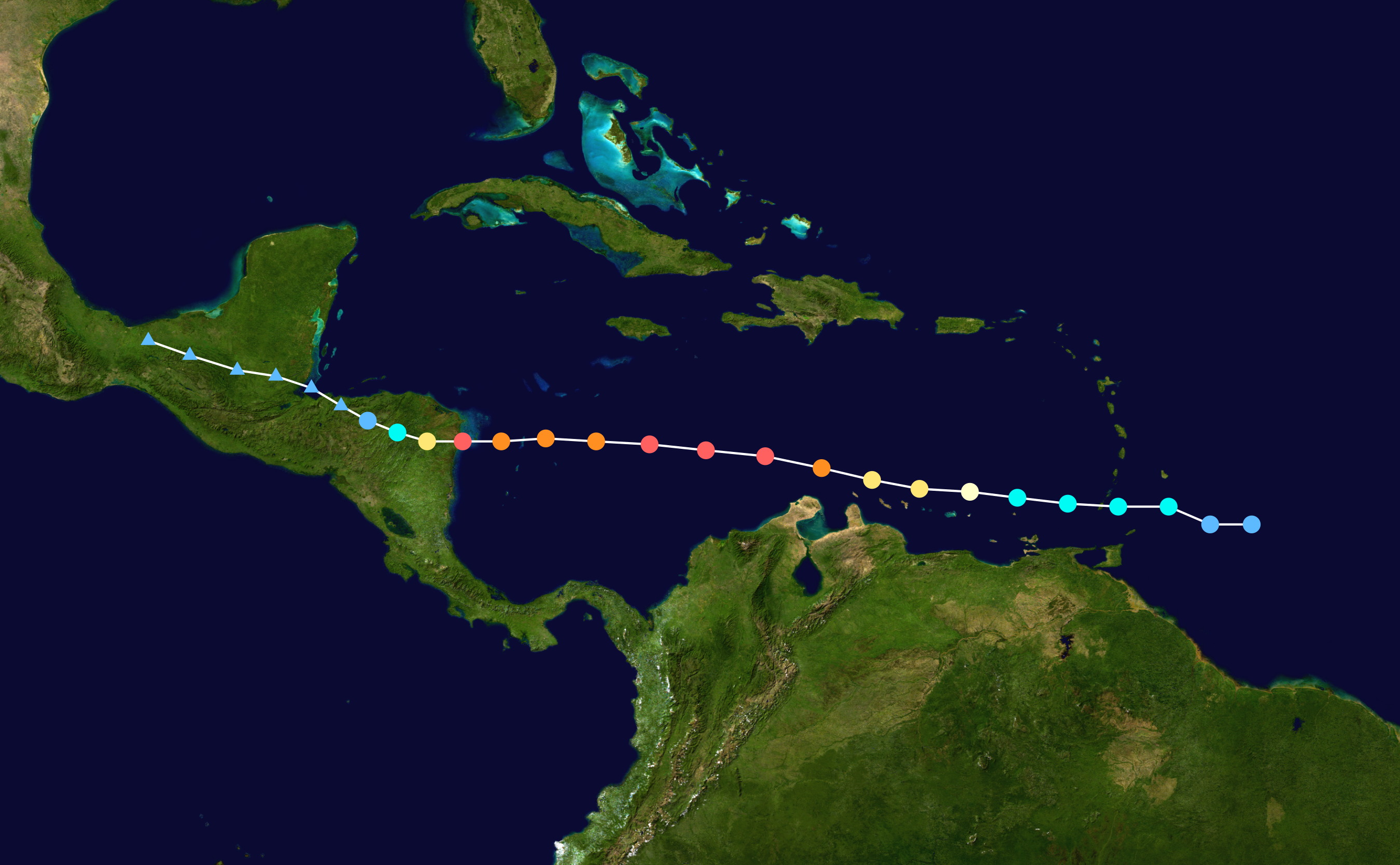 Track map of Hurricane Felix of the 2007 Atlantic hurricane season. The points show the location of the storm at 6-hour intervals. The colour represents the storm's maximum sustained wind speeds as classified in the Saffir–Simpson scale (see below), and the shape of the data points represent the nature of the storm, according to the legend below. Saffir–Simpson scale Tropical depression≤38 mph≤62 km/h Category 3111–129 mph178–208 km/h Tropical storm39–73 mph63–118 km/h Category 4130–156 mph209–251 km/h Category 174–95 mph119–153 km/h Category 5≥157 mph≥252 km/h Category 296–110 mph154–177 km/h Unknown Storm type Tropical cyclone Subtropical cyclone Extratropical cyclone / Remnant low / Tropical disturbance / Monsoon depression